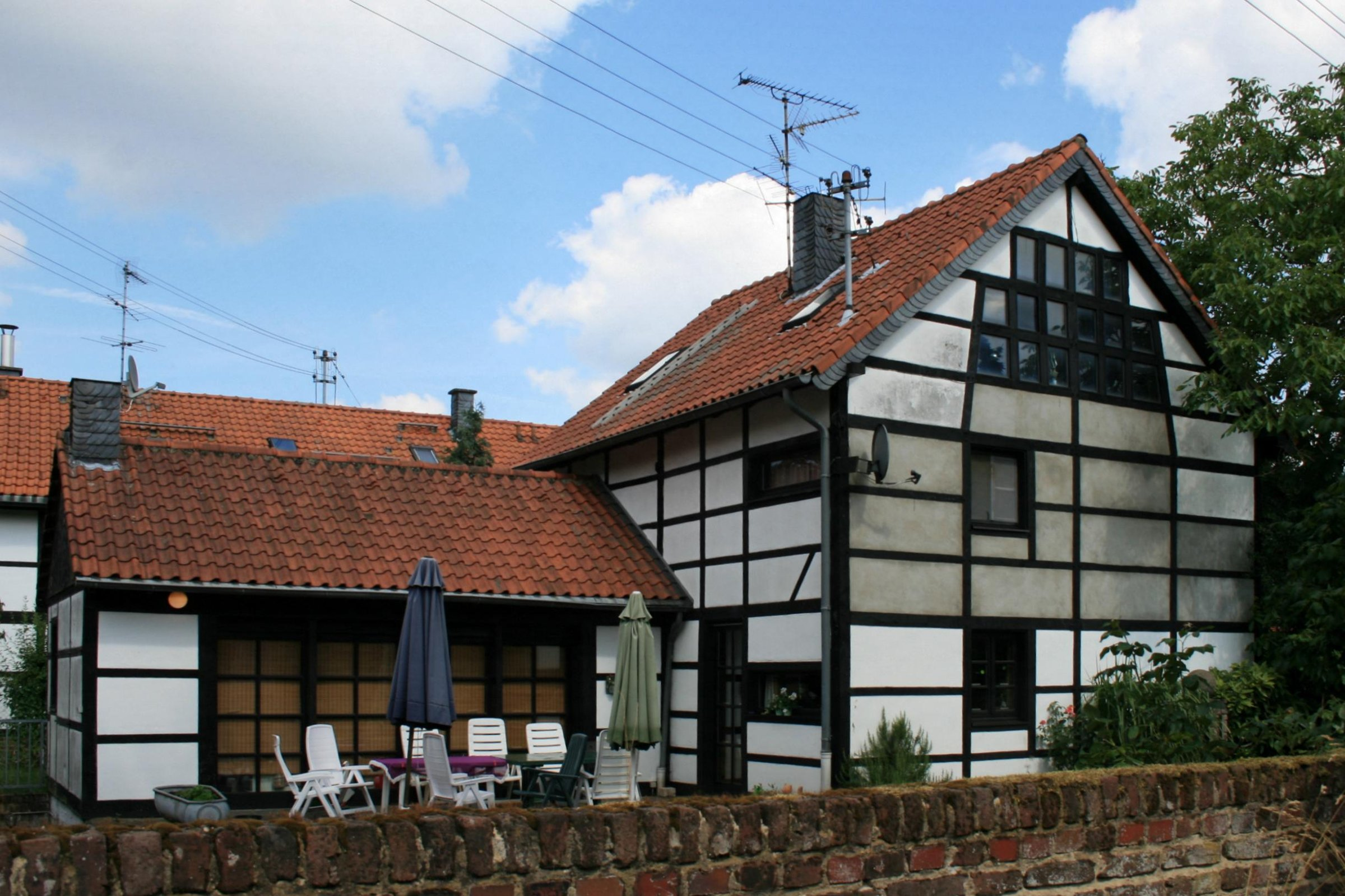 Cultural heritage monument No. V 007 in Mönchengladbach